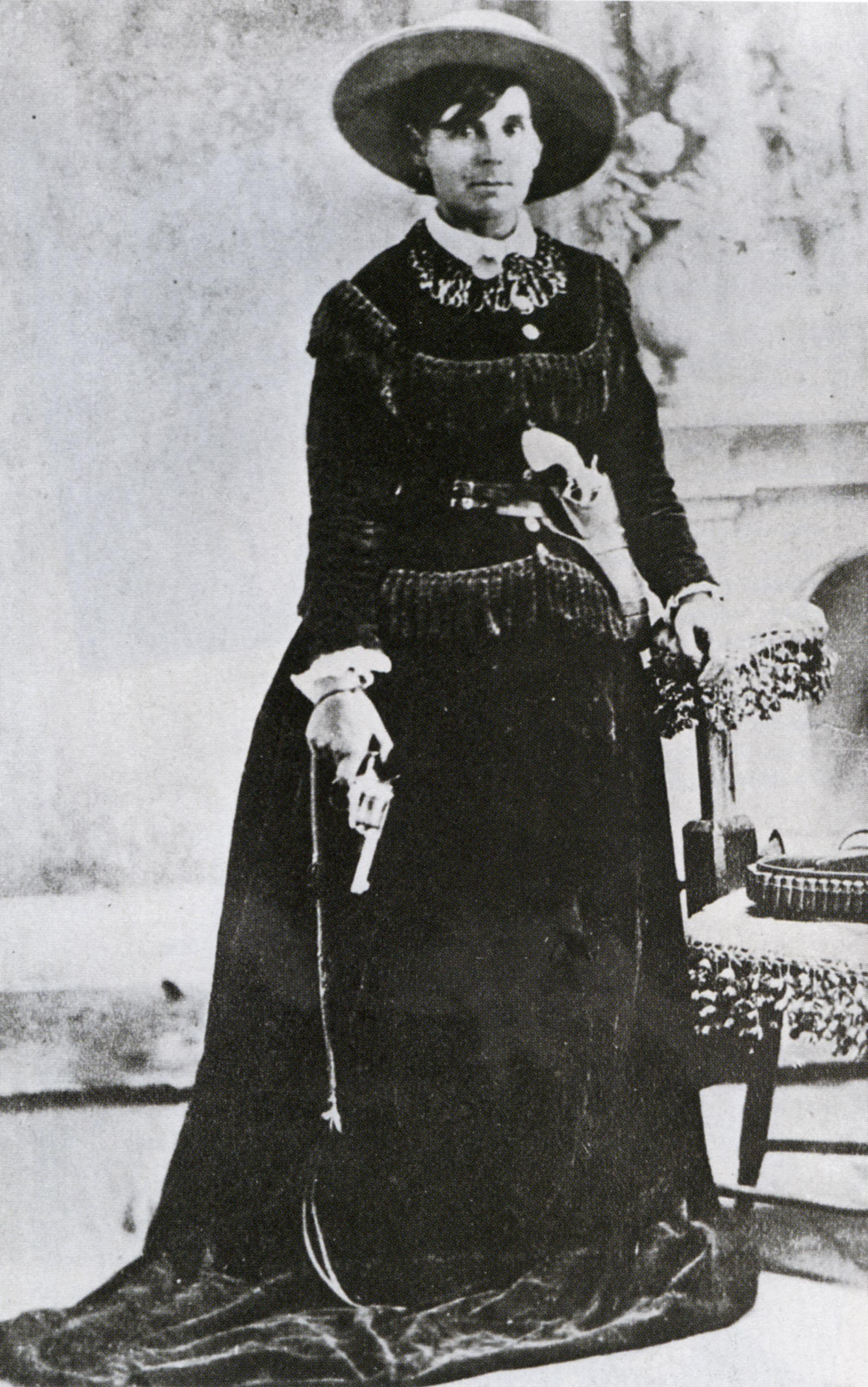 A studio portrait of Belle Starr probably taken in Fort Smith in the early 1880s.